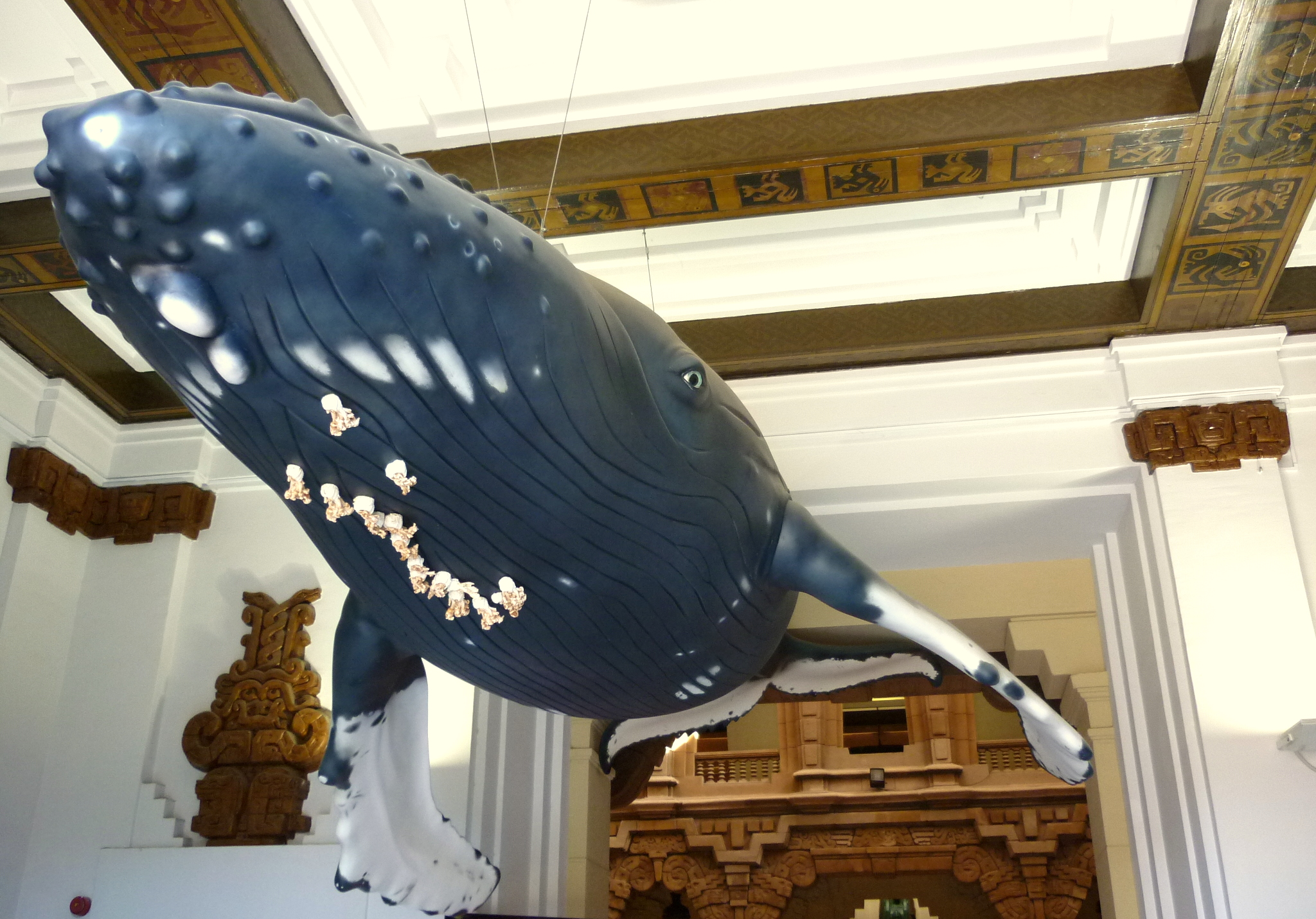 Whale hanging in the entrance of la Casa de la Ciencia - Science Museum, Seville